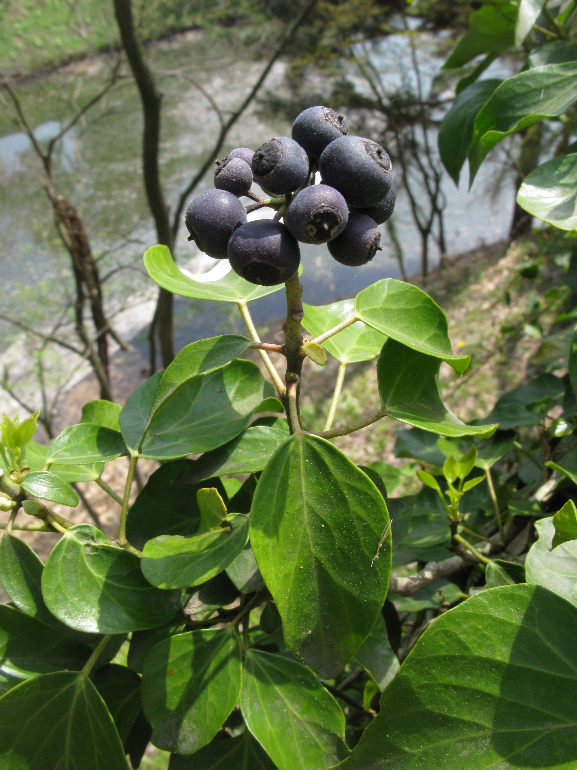 Hedera rhombea, Aizu area, Fukushima pref., Japan